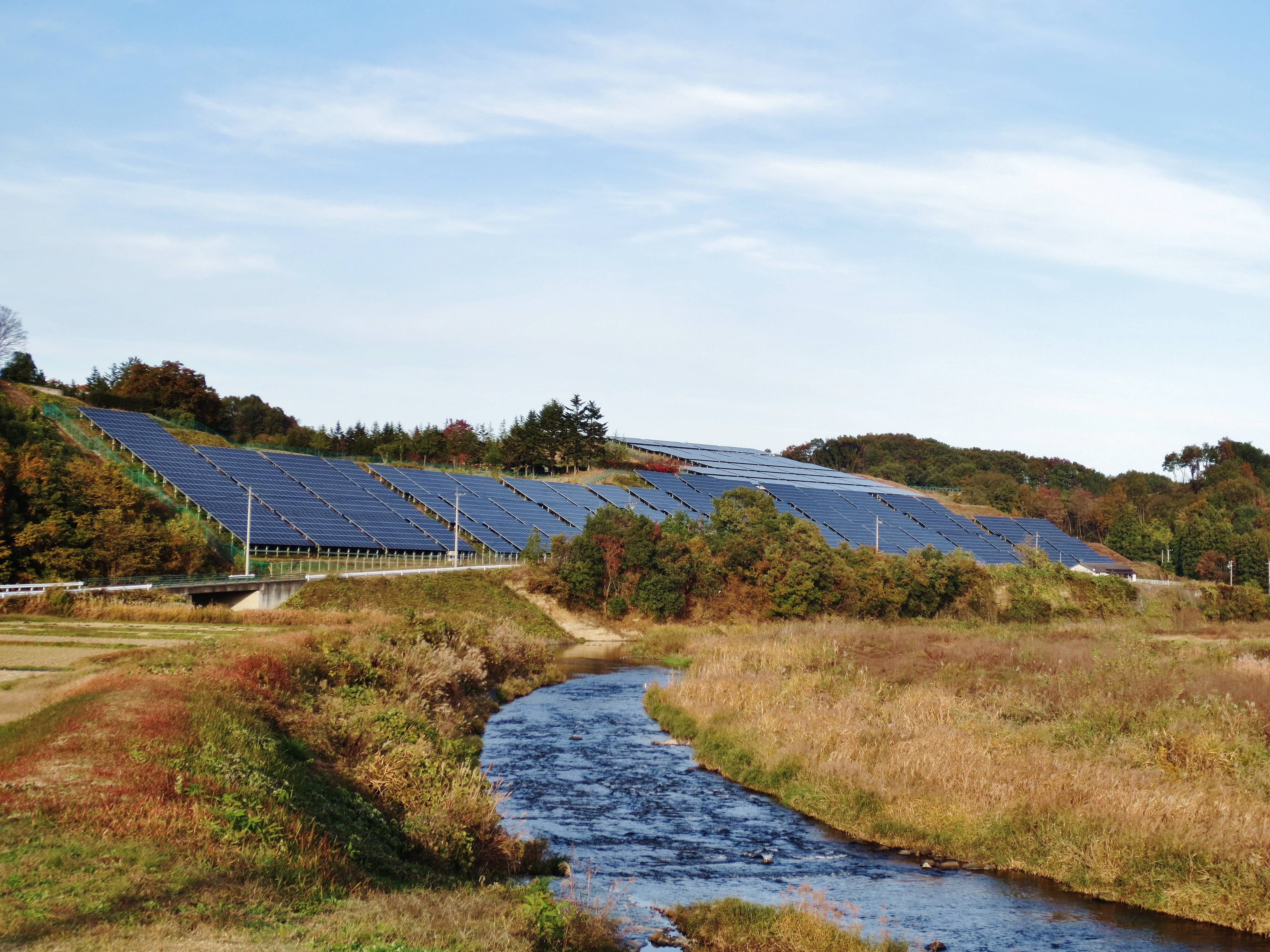 Bic Clean Energy Annaka.